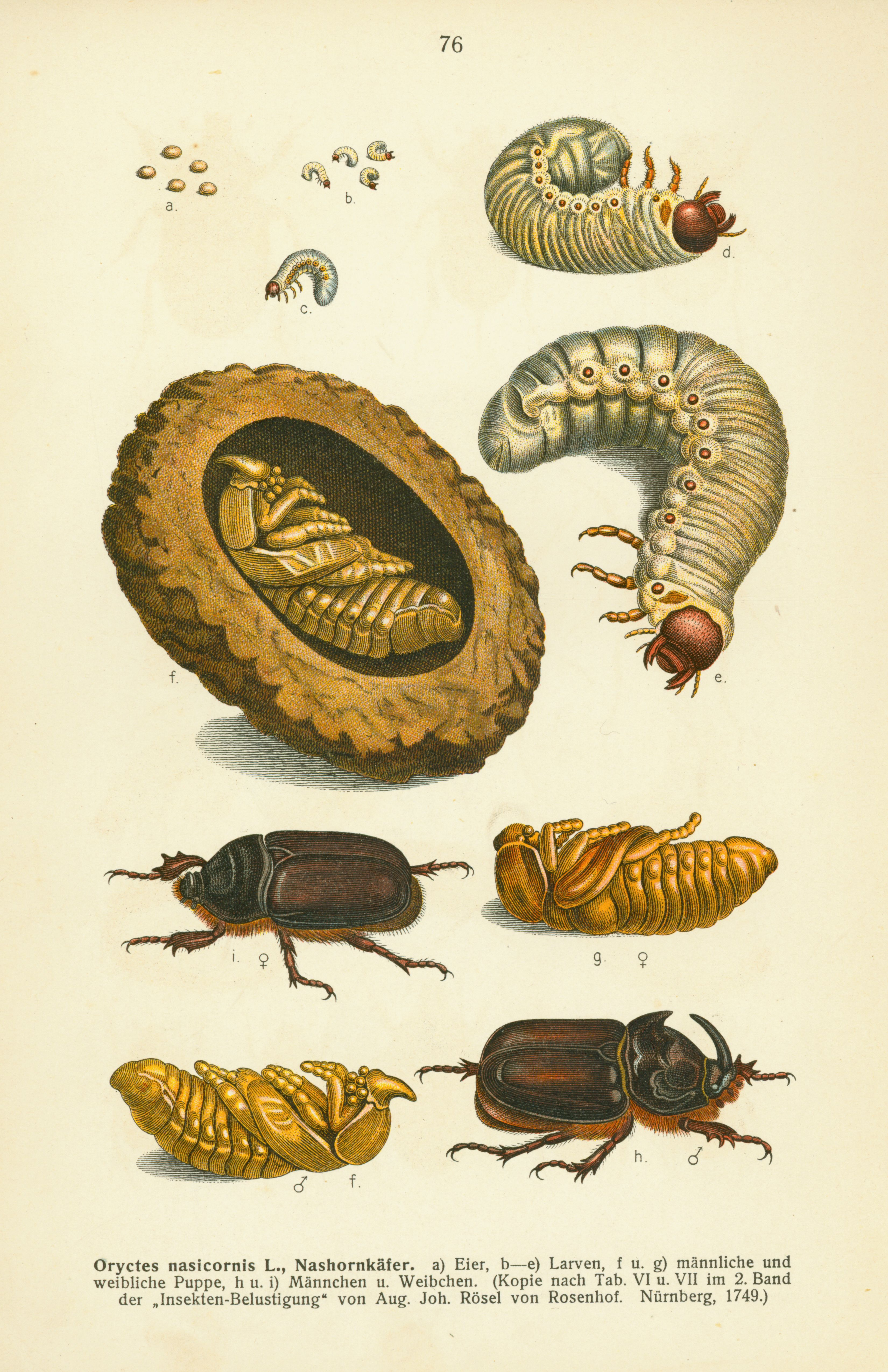 Oryctes nasicornis Lin. = Oryctes nasicornis (Linnaeus, 1758) (a: eggs, b: hatchling larva, c: young larvae, d: older larvae, e: larva before pupation, and pupa in earth hollow, f: male pupa, g: female pupa, h: adult male, dorsolateral view, i: adult female, dorsolateral view)